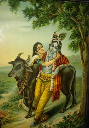 Sri Gopalarao has painted many paintings of lord Sri Krishna. One of them is the Radha Krishna painting. The use of bright colors must be noted in this painting. The colors bring out the artist vivid imagination for the clothes and the background which add beauty and elegance to the painting. This painting was printed in Germany in 1927. Lord Sri Krishna is seen with Radha in the painting